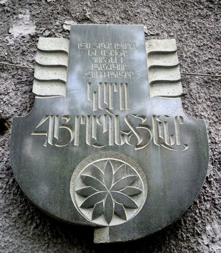 Plaque for Karo Hayrapetyan